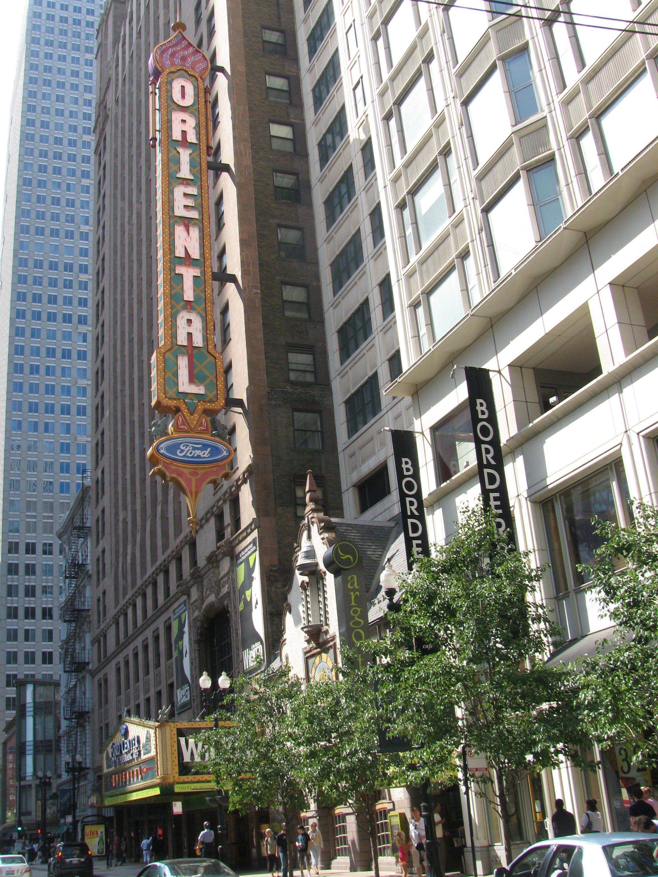 Ford Center for the Performing Arts Oriental Theatre